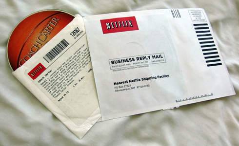 A Netflix envelope picture taken by BlueMint.